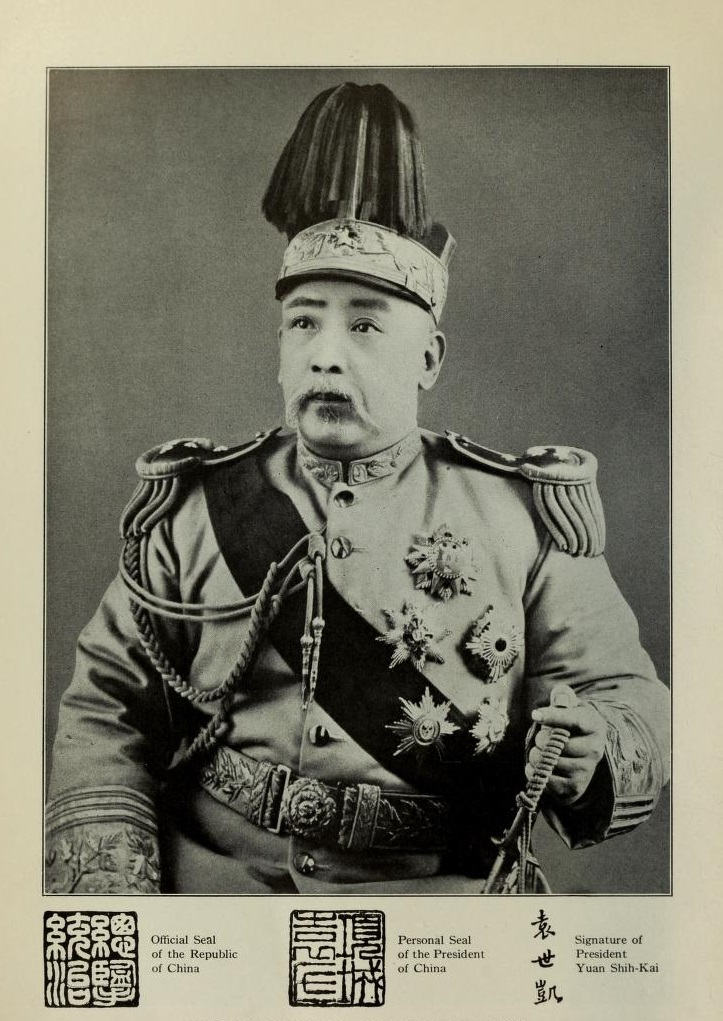 "President Yuan Shih-kai of China."